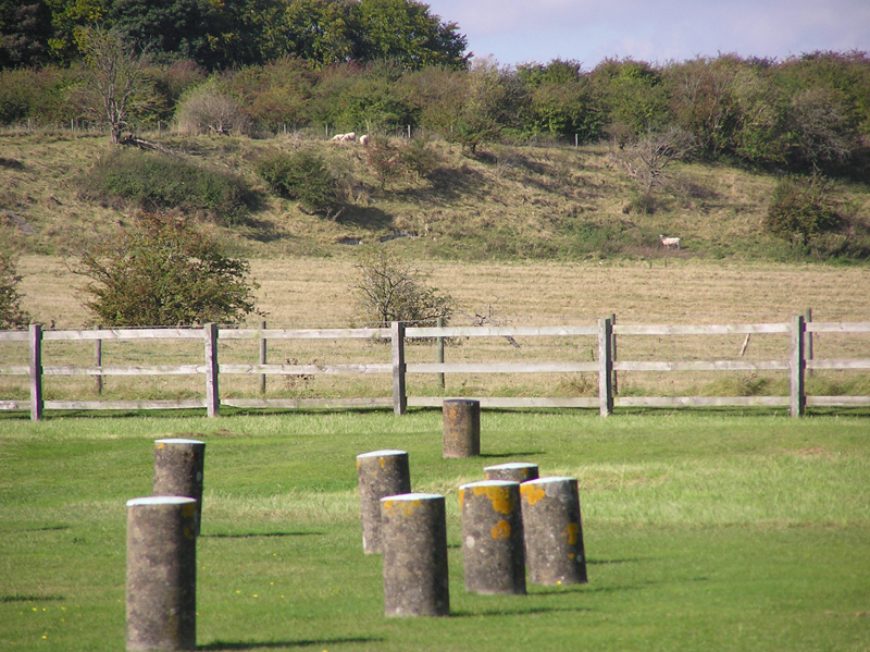 A shot of the western bank of Durrington Walls, seen from Woodhenge.